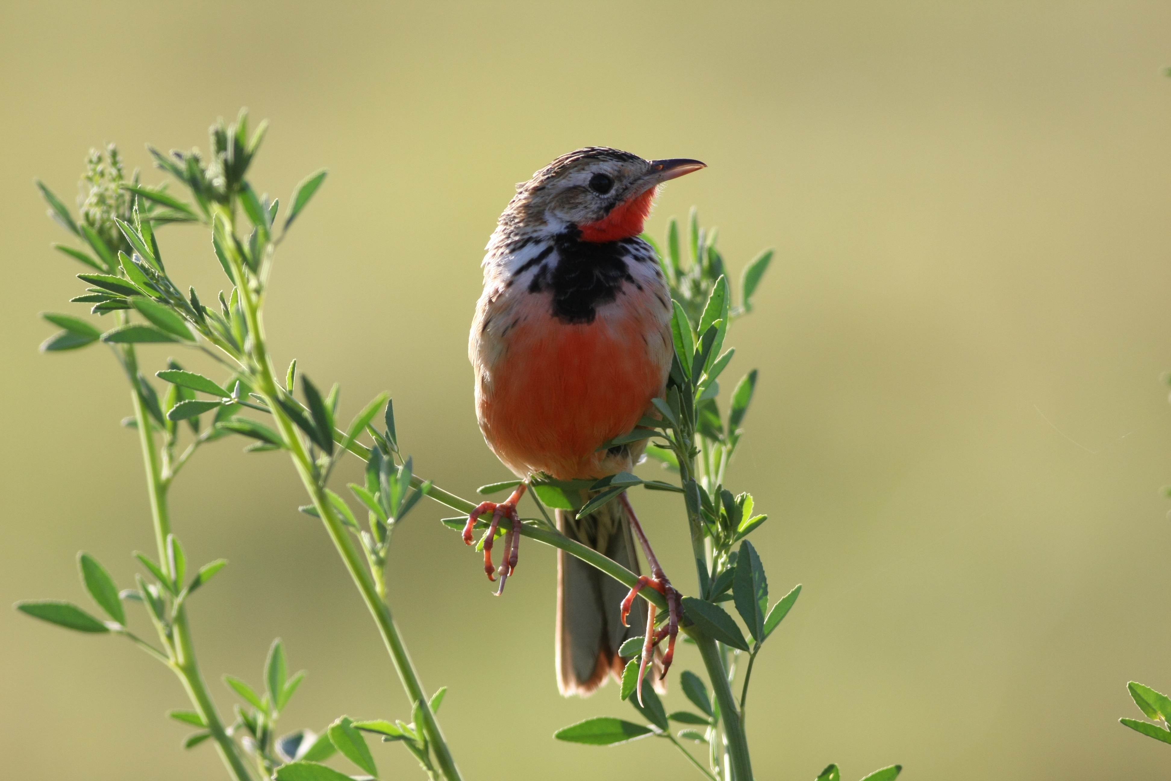 A Rosy-Throated Longclaw photographed near the Ngorongoro Crater Rim in Tanzania.